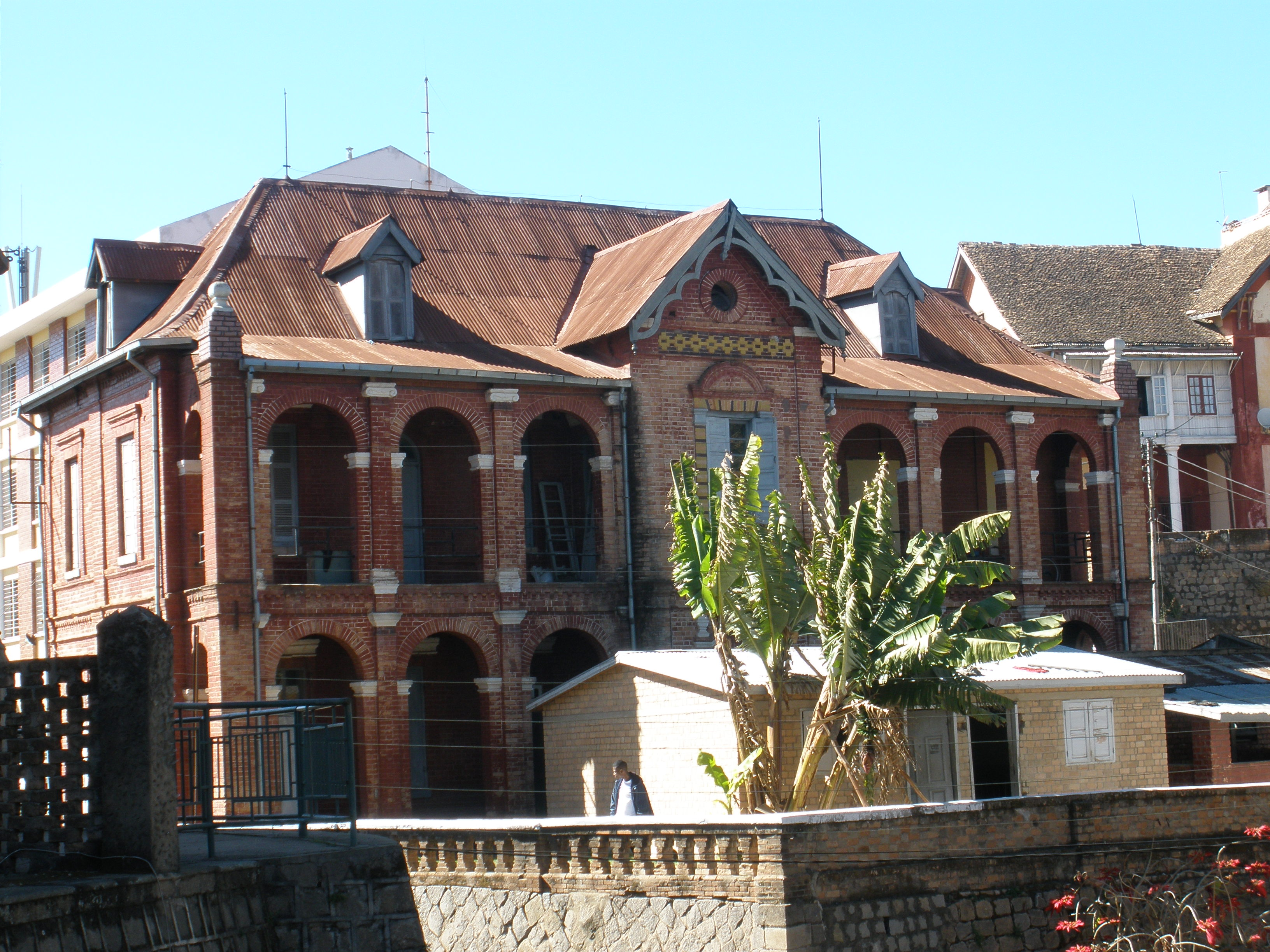 Fancy brick house in Antananarivo, Madagascar